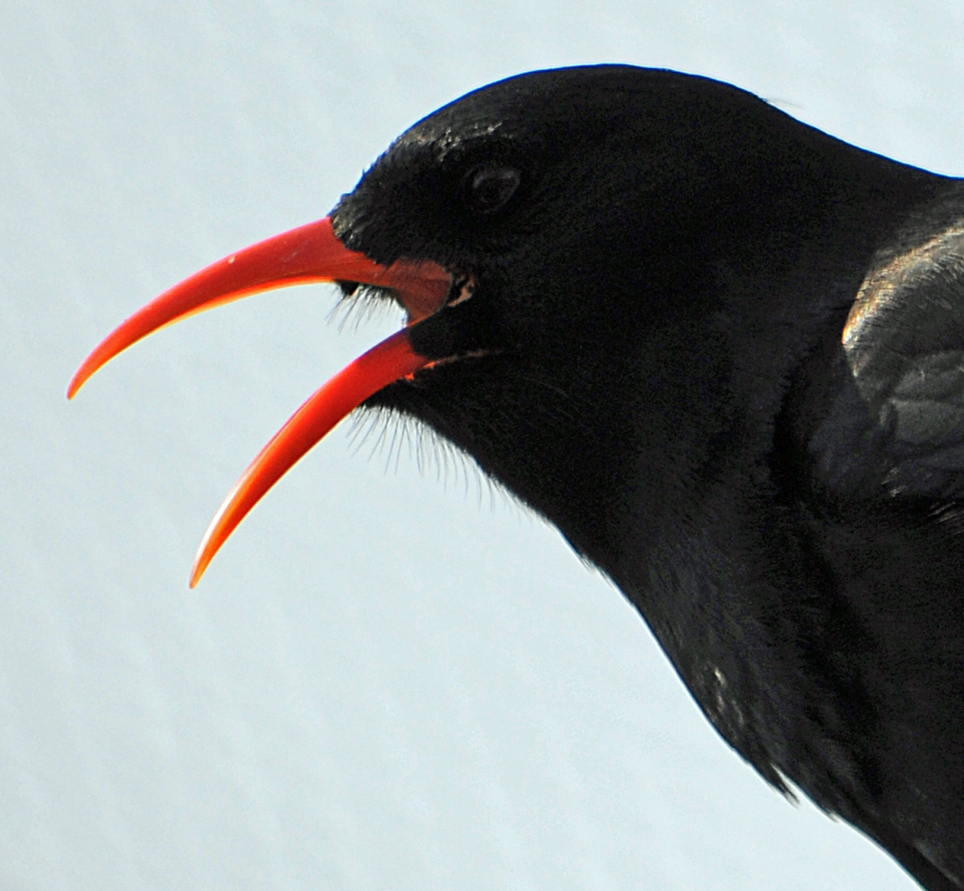 A Red-billed Chough at Living Coasts, Devon, England.